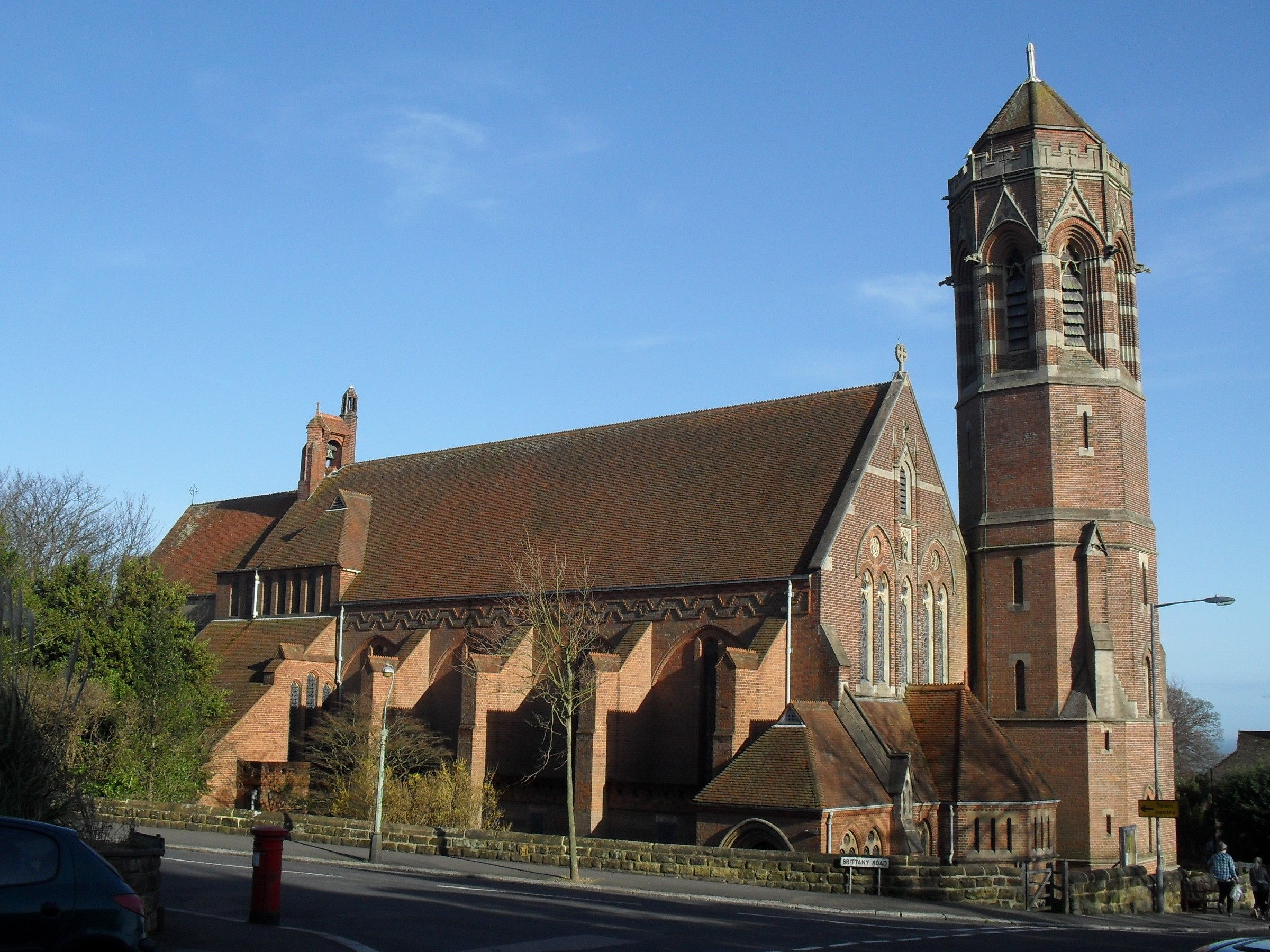 St John the Evangelist's parish church, Upper Maze Hill, St Leonards-on-Sea, Hastings, East Sussex, England, seen from the northwest. The church was designed by Sir Arthur Blomfield and built in 1881. It was damaged in the Second World War and rebuilt 1950–54 to designs by HS Goodhart-Rendel after being damaged during World War II. The southwest tower is the main surviving part of the original building.